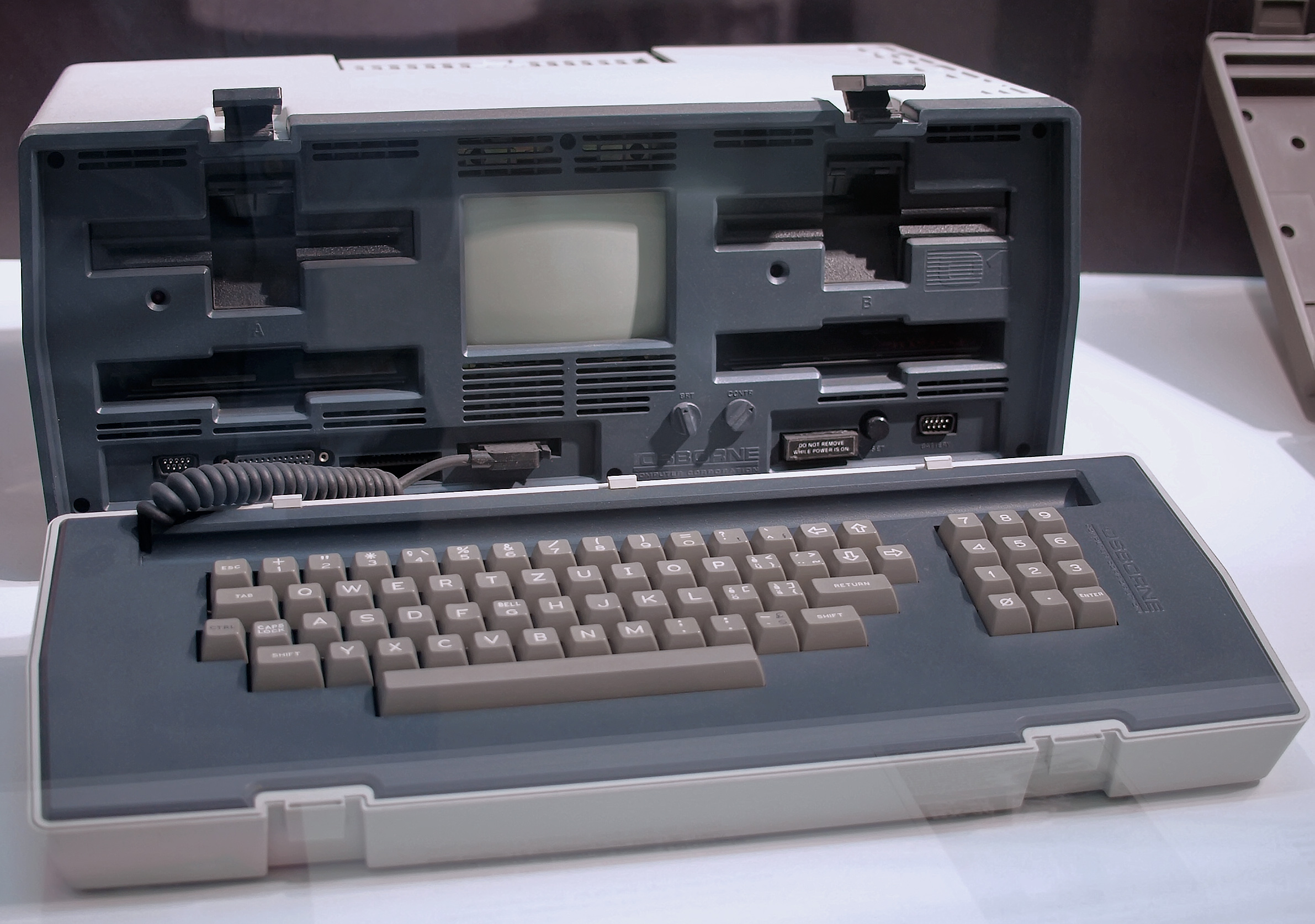 Osborne 1 Portable Personal Computer (1981)